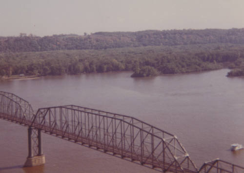 Shown here is the old Eagle Point Bridge that connected Dubuque, Iowa and Grant County, Wisconsin. My mother had taken this picture during the late 1960's.